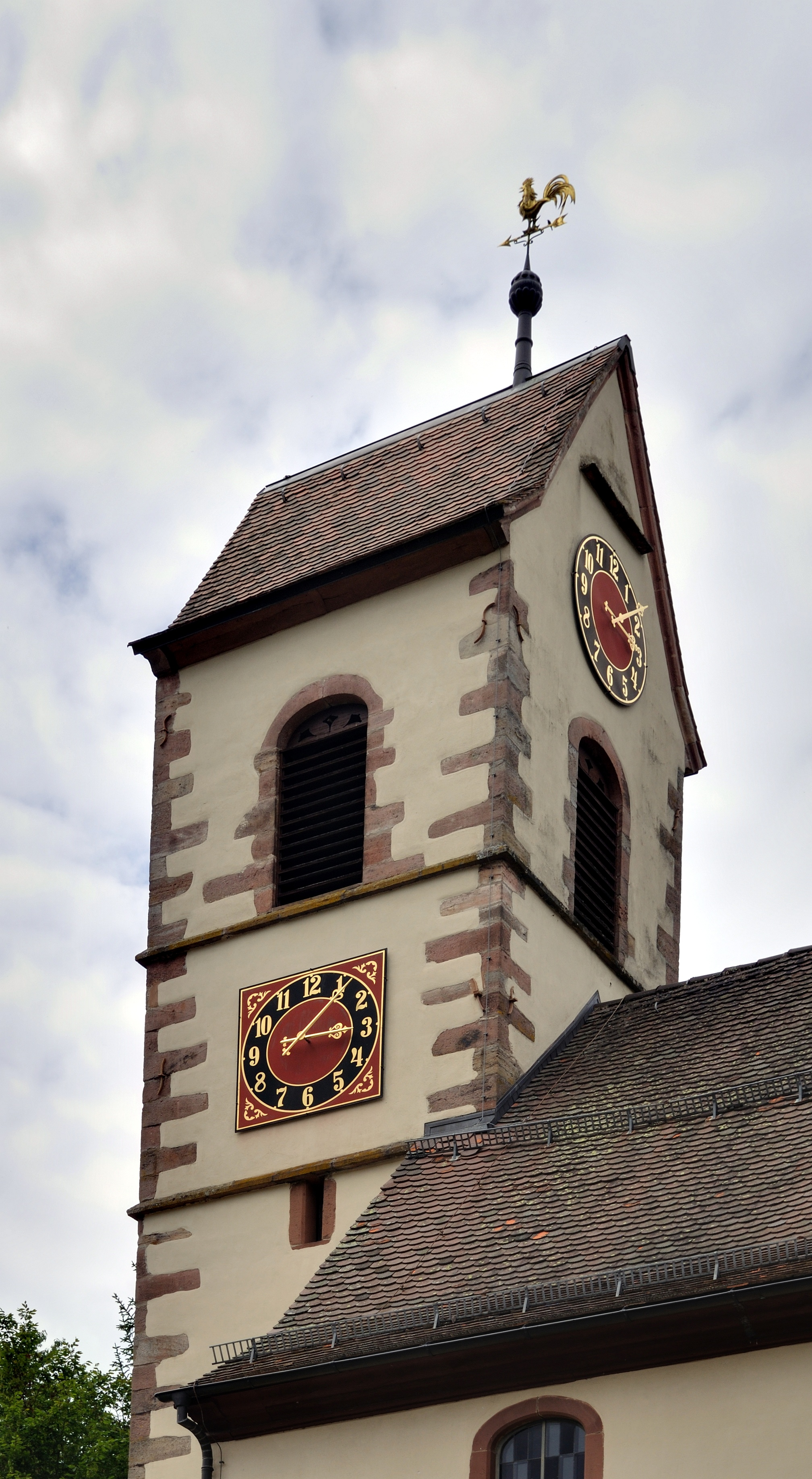 Tegernau: Protestant Church